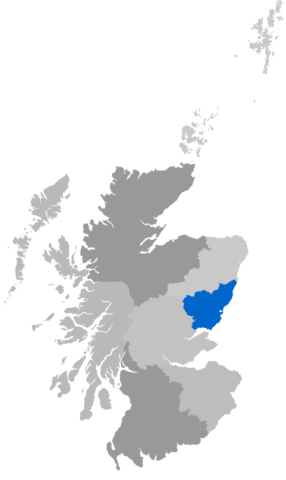 Map showing the Diocese of Brechin among the dioceses of the Scottish Episcopal Church